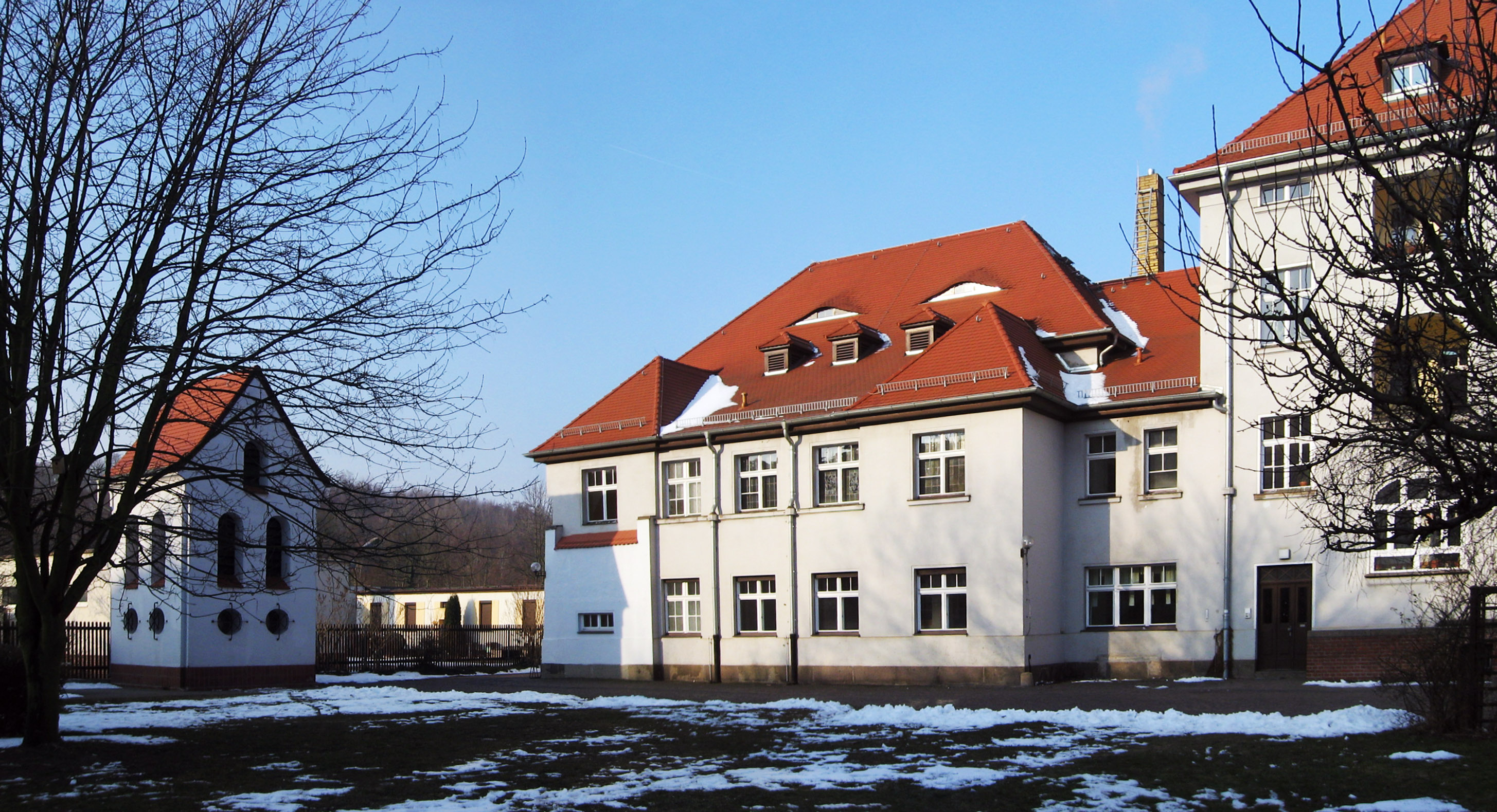 Bethlehem Church in Leipzig, Kurt-Eisner-Strasse 22